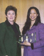 Federal Aviation Administration Administrator Jane Garvey presents Dr. Inniss with the FAA Center of Excellence (COE) student of the year award.